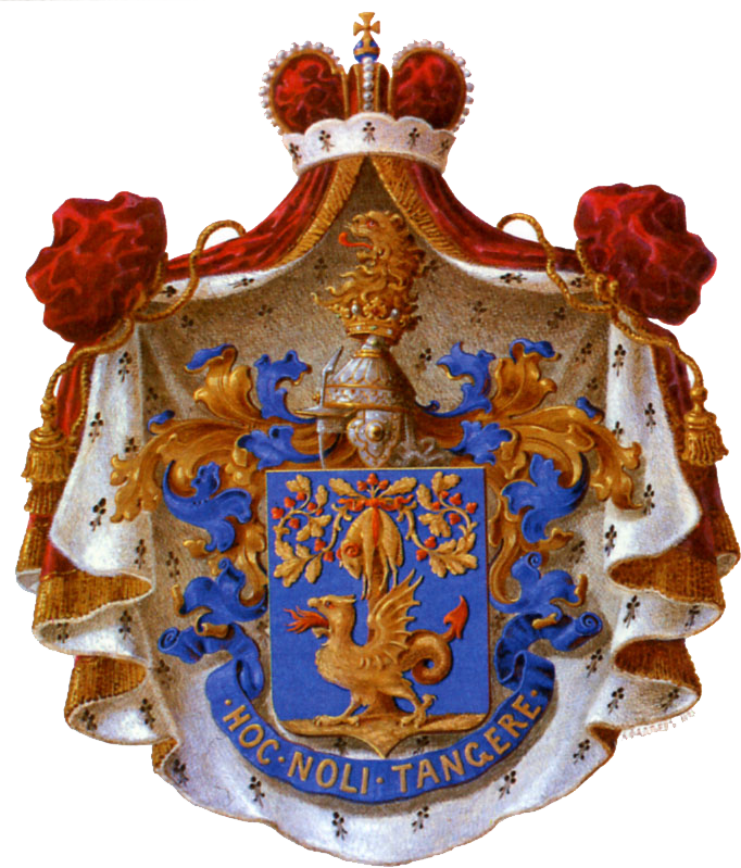 Coat of arms of the Most Serene Prince Dadian of Mingrelia.